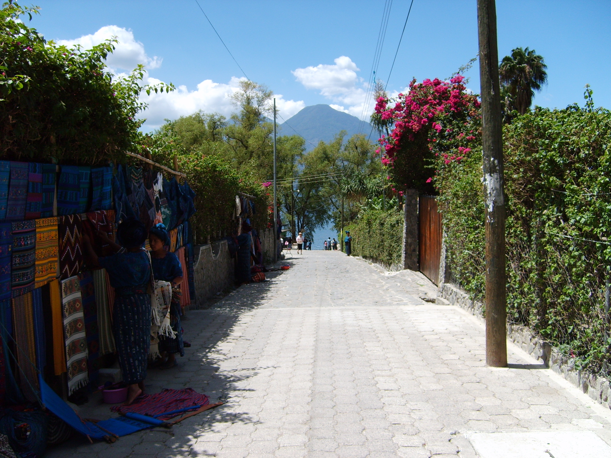 Street in Santa Catarina Palopo, department of Solola, Guatemala, looking towards Lake Atitlan.